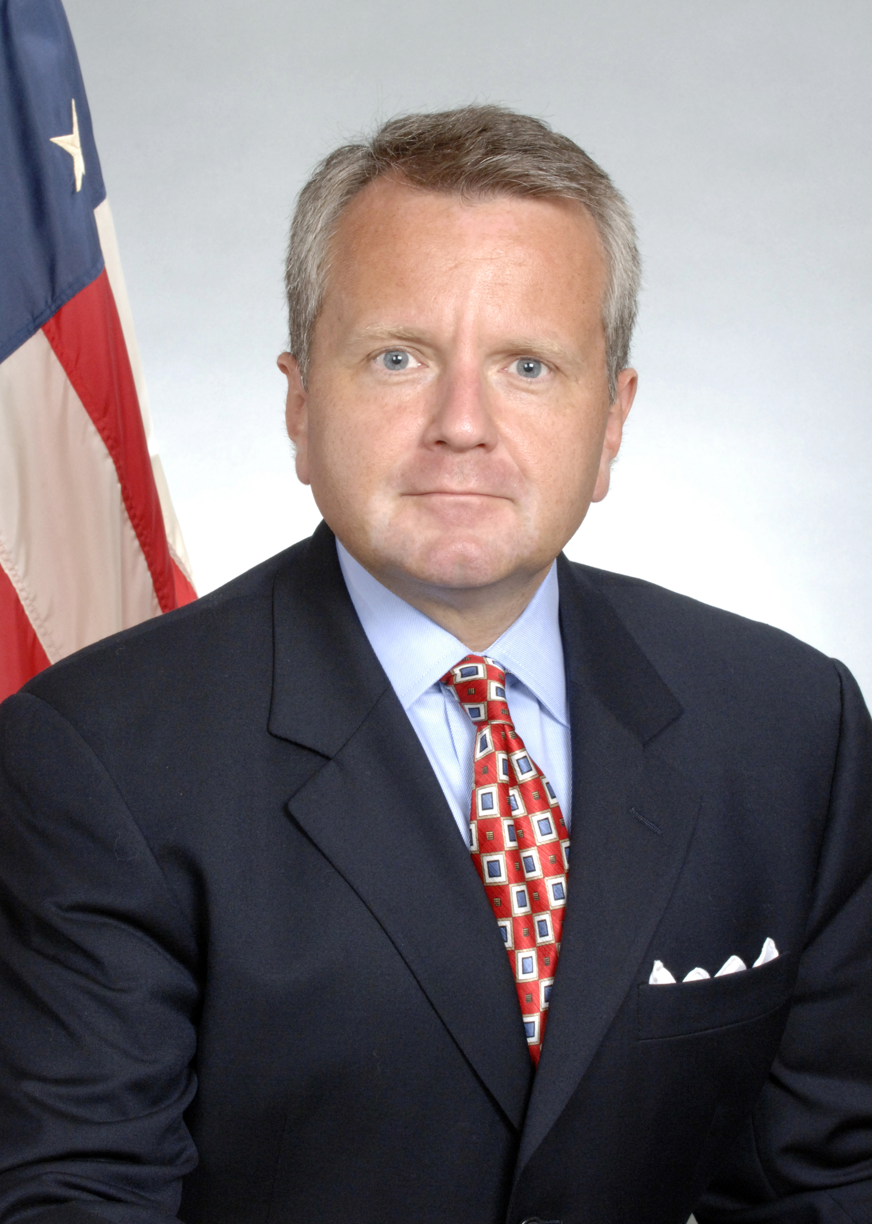 Portrait of John J. Sullivan, former Deputy Secretary of the United States Department of Commerce.